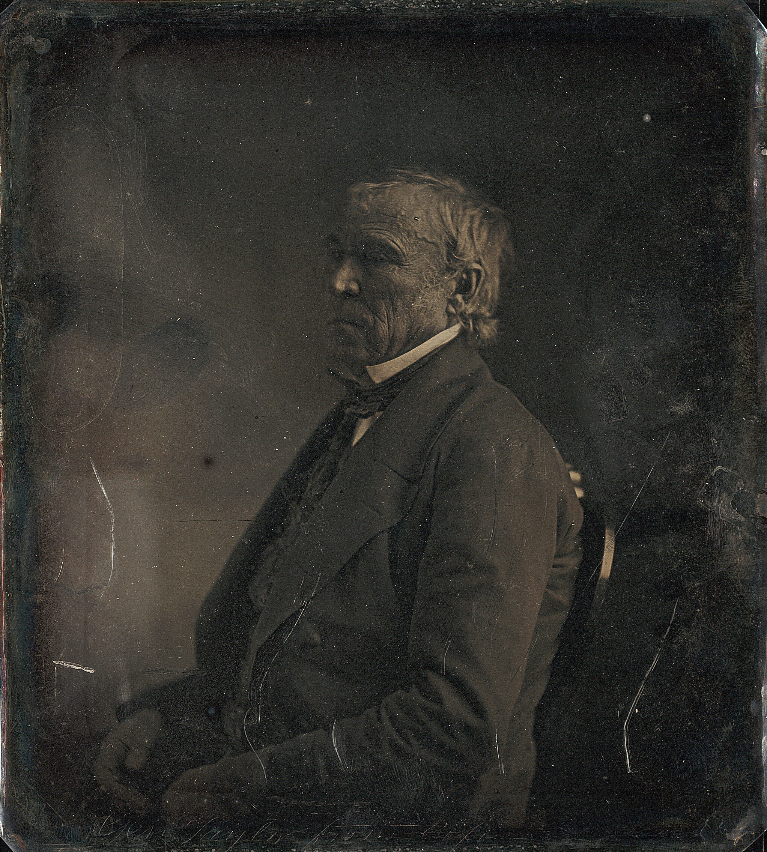 Daguerreotype of Gen. Zachary Taylor, taken at the White House, by photographer Mathew Brady, in March 1849. Courtesy of the Beinecke Rare Book & Manuscript Library, Yale University. [1]